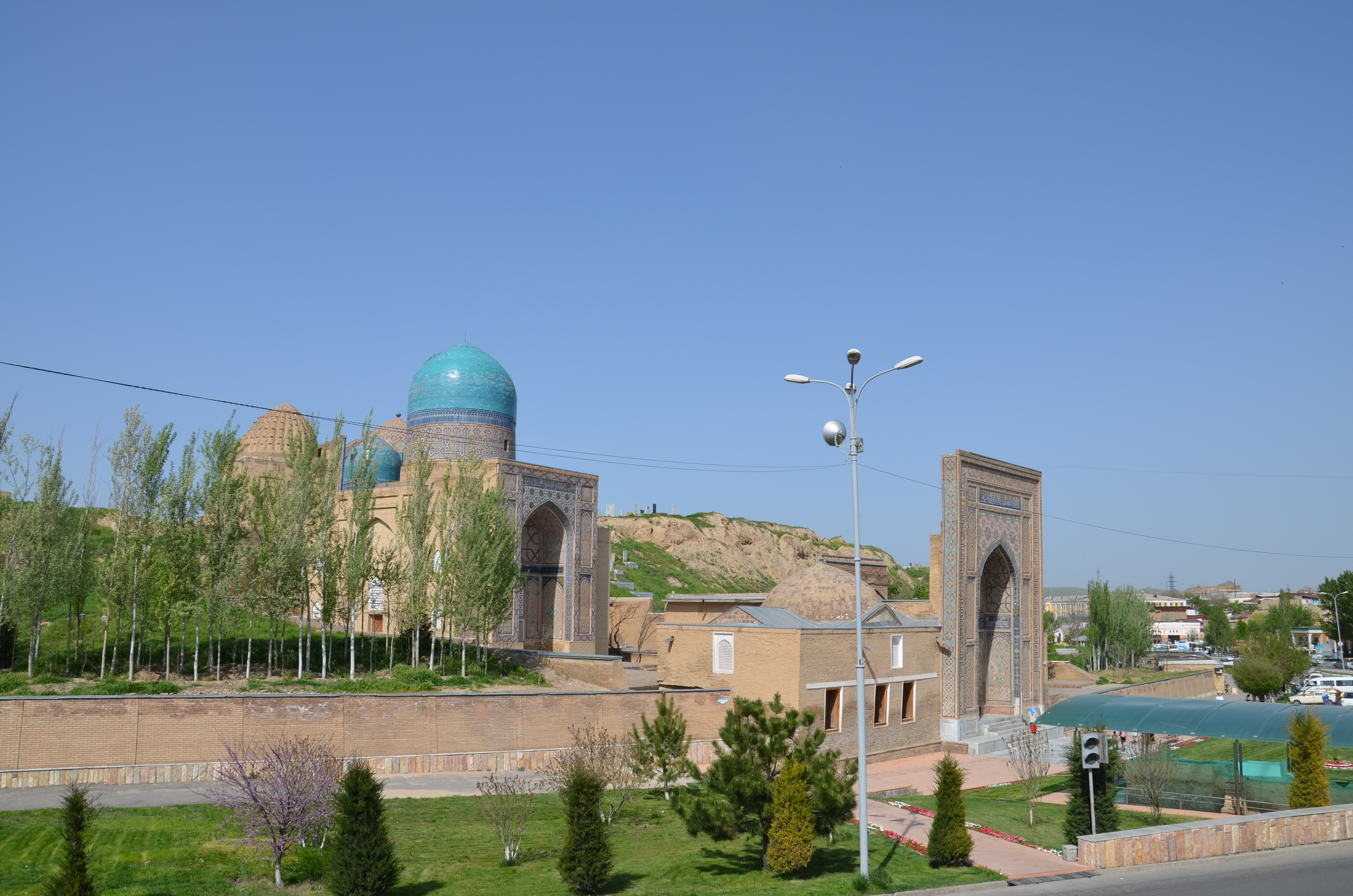 Ensemble Shakhi Zinda